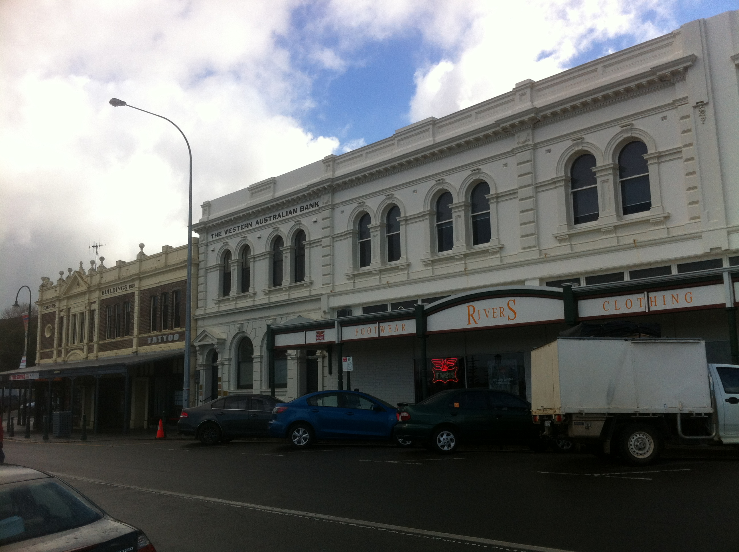 Western Australian Bank Building on Striling Terrace Albany